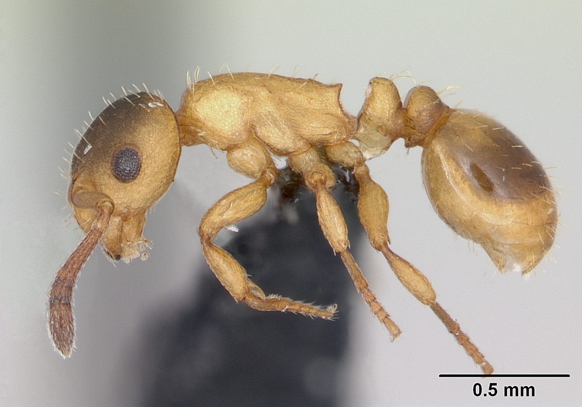 Profile view of ant Myrmoxenus ravouxi specimen casent0173641.